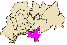 position of district 7 in an outline of the core area of HCMC (Ho Chi Minh City, Vietnam) - ISO code VN-F-HC. Keywords: map, outline, city, Ho Chi Minh City, HCMC, HCM, district 7, quan 7.